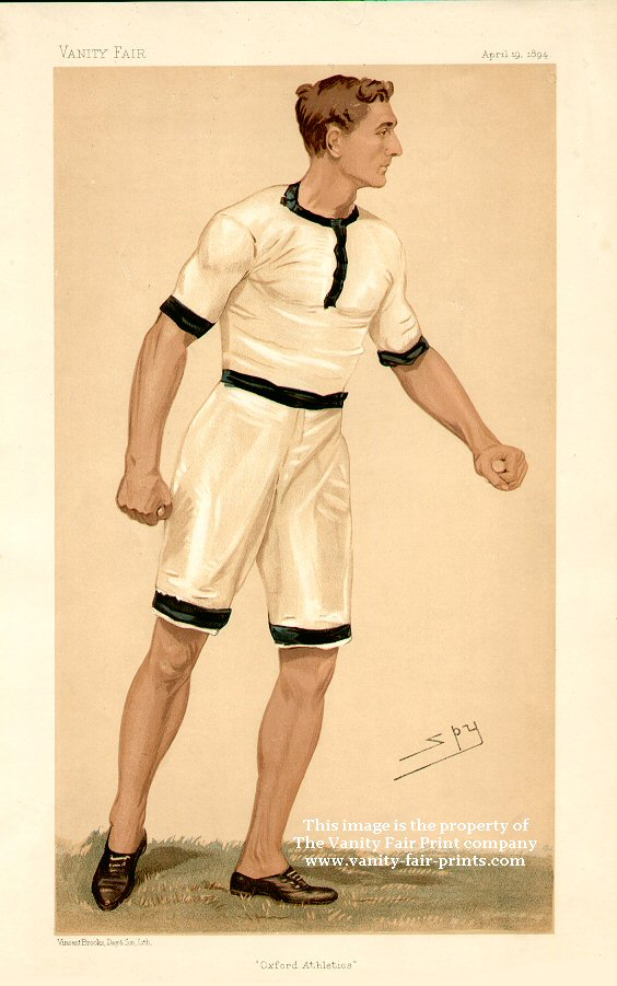 Men of the Day No.0584: Caricature of Mr CB Fry. Caption reads: "Oxford Athletics"